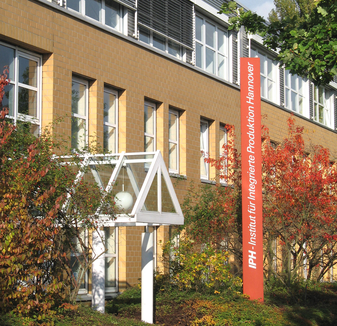 IPH - Institut fuer Integrierte Produktion Hannover (based in Hanover, Germany)